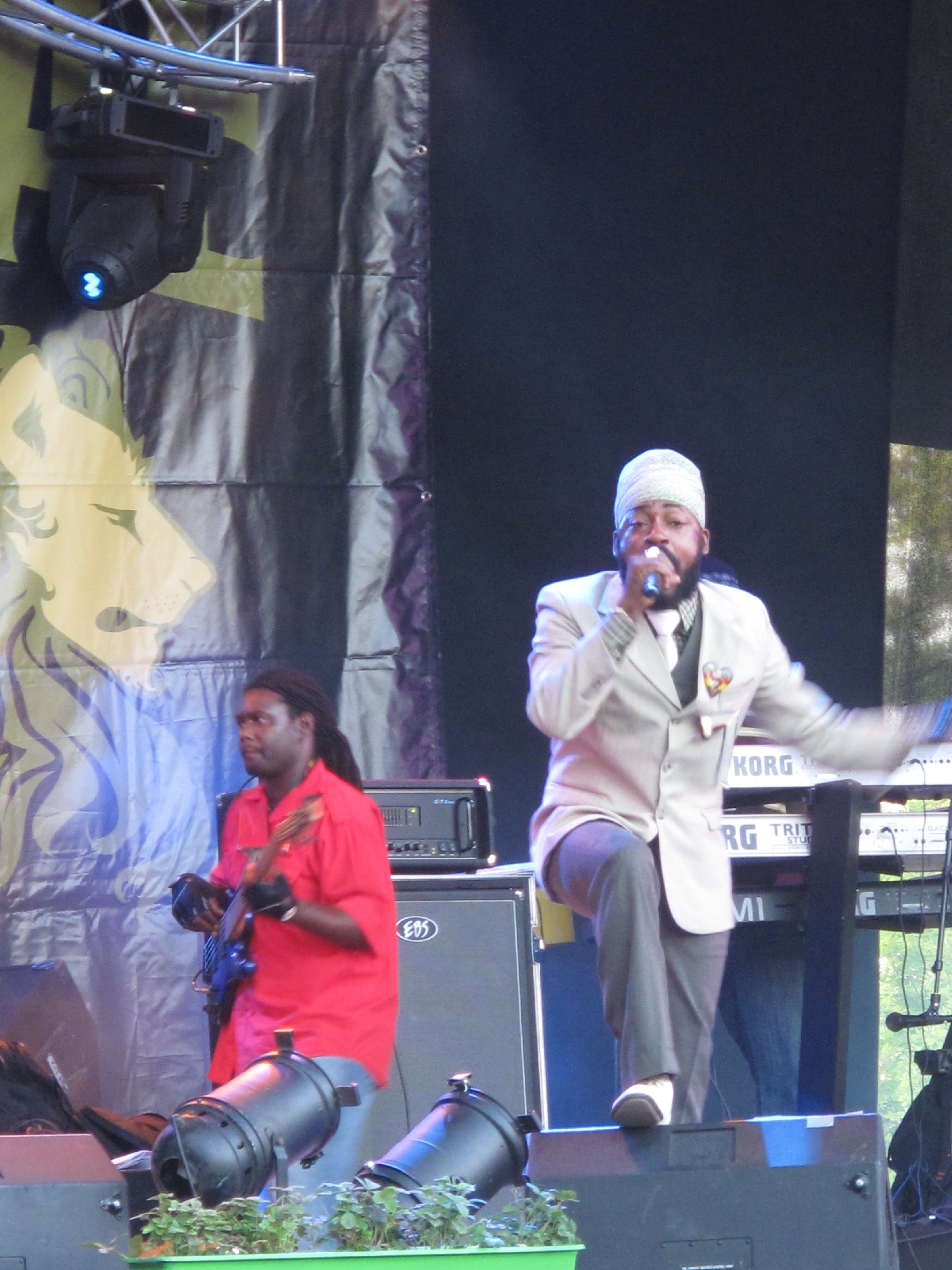 Lutan Fyah at the Uppsala Reggae Festival, Sweden, 2009